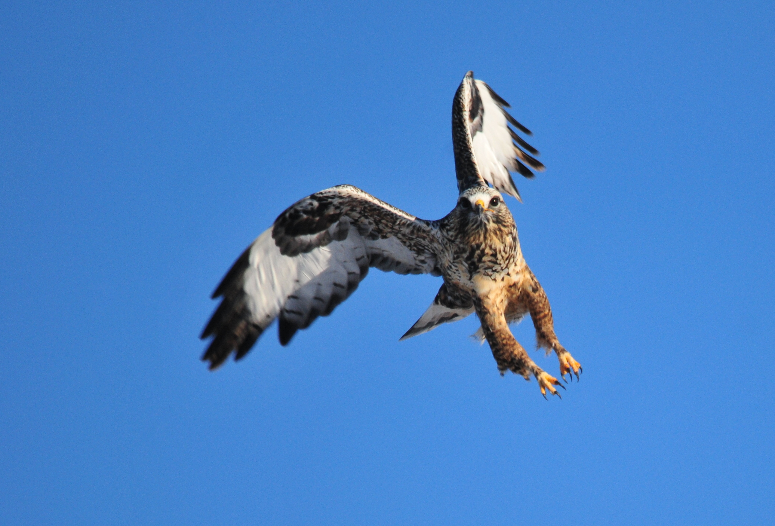 Cool Facts About Rough-Legged Hawks The name "Rough-legged" hawk refers to the feathered legs. The rough-legged hawk, the ferruginous hawk, and the golden eagle are the only American raptors to have legs feathered all the way to the toes. The extra feathers help to keep legs warm. Rough-legged hawks have been shown to hunt more in areas experimentally treated with vole urine than in control areas. They may be able to see this waste (as American kestrels can), which is visible in ultraviolet light, in order to find patches of abundant prey. Nonbreeding adults eat about a quarter-pound of food daily, or a tenth of their body mass—that’s about 5 small mammals. On Seedskadee NWR, individuals have been observed catching and eating a meadow or sagebrush vole about every 20 minutes. They hunt by hovering in place over vole habitat, then diving down and grabbing them on the ground. They try to not draw attention and eat fast, often swallowing whole. Other raptors and even coyotes may try to steal the vole from them. They are common on Seedskadee and Cokeville Meadows NWRs during the coldest part of the year. December through February are the best times to see them here. They begin to head north in March and by mid to late April are gone. Photo: A rough-legged hawk on Seedskadee NWR confusing the photographer for a vole. Tom Koerner/USFWS